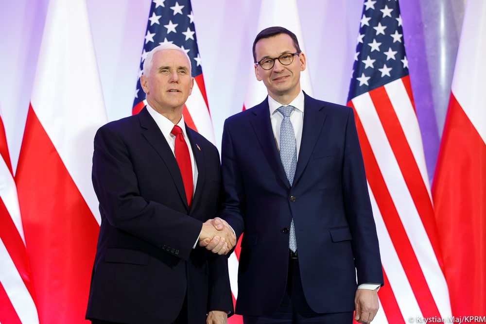 Meeting with the Vice President of the United States. 2019.02.14 Warsaw. Prime Minister Mateusz Morawiecki met with US Vice President Mike Penc on the occasion of the Middle East Summit organized in Warsaw.